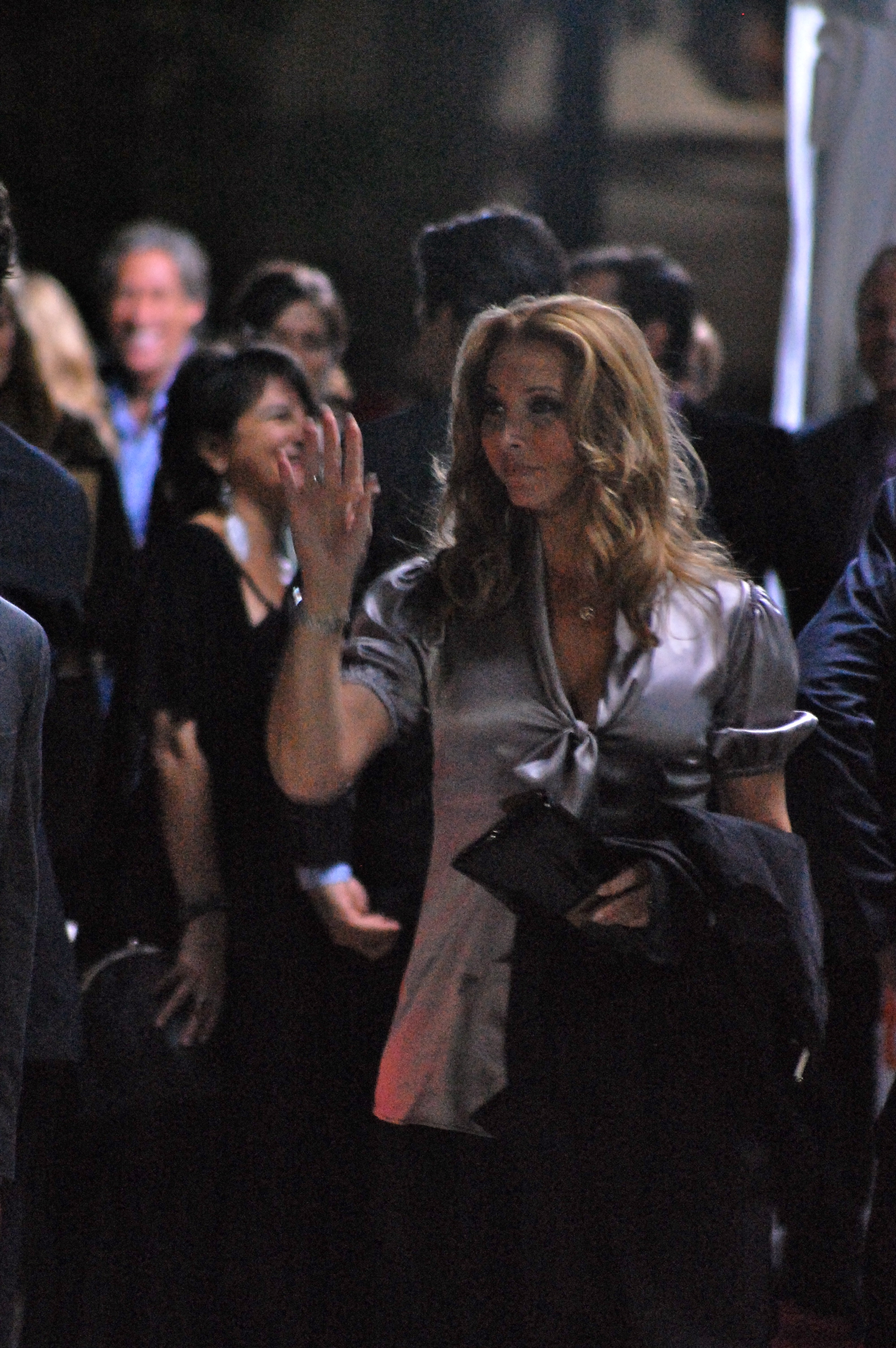 Lisa Kudrow at the premiere of Love and Other Impossible Pursuits - Roy Thompson Hall - September 16, 2009